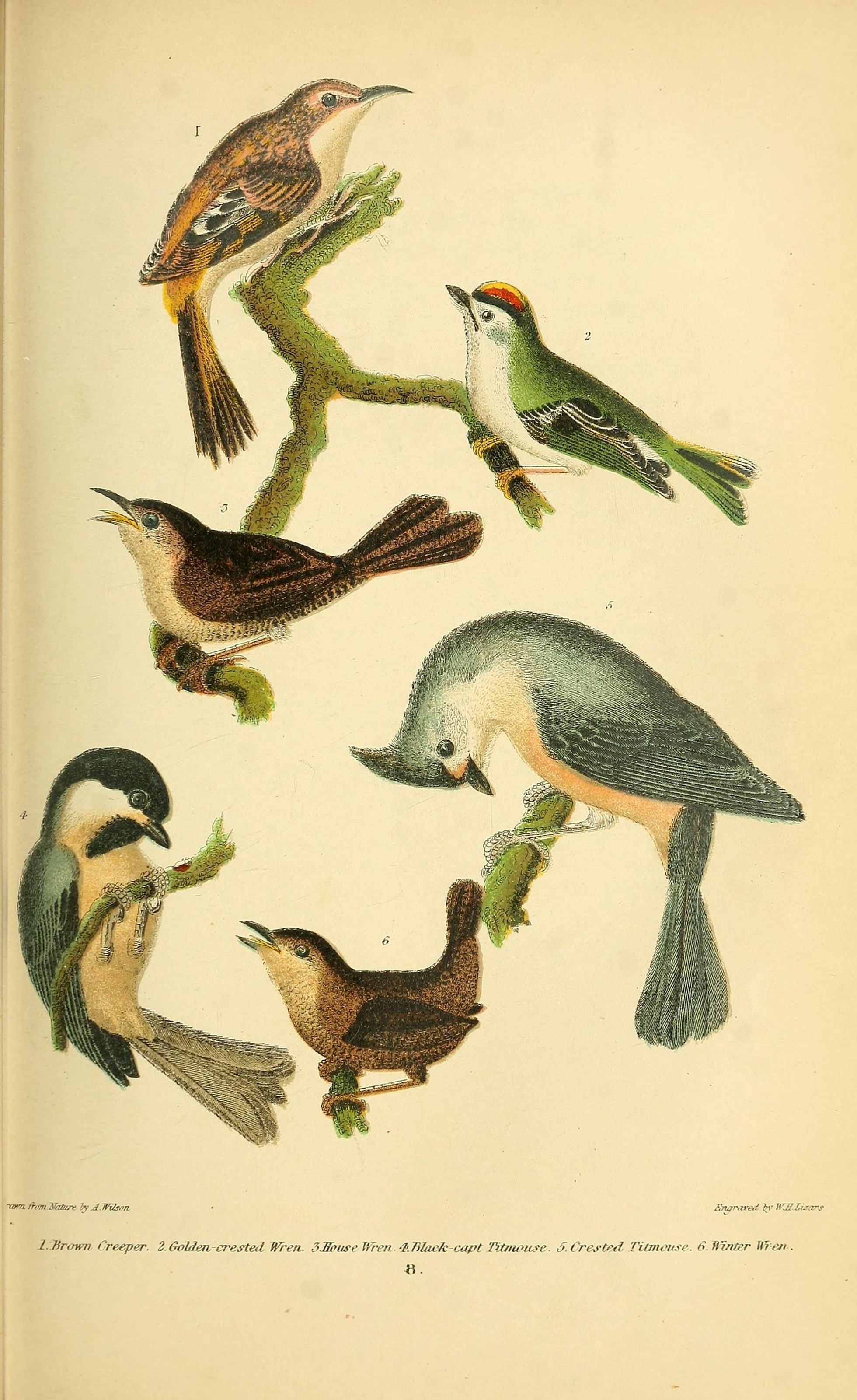 2 Own y/tfare ly A. fFils.v SrW'TiVtf £r H~j7f-:~ I.Brown Creeper. ZOoUert-cres'teit Wren. 3JRruse Wren 4././aek capt TttnwtLse . 5. Crested Titmouse, ti. flutter Wen-.